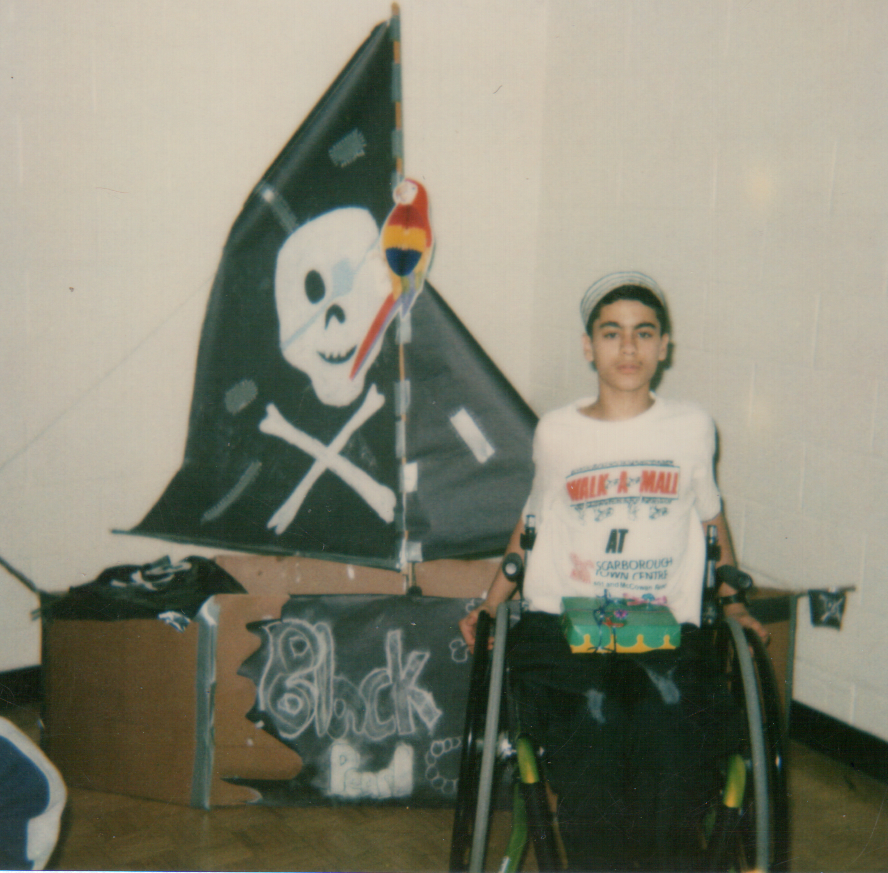 Abdulkareem Khadr following his return to Canada following a 2003 raid by Pakistani and American forces.